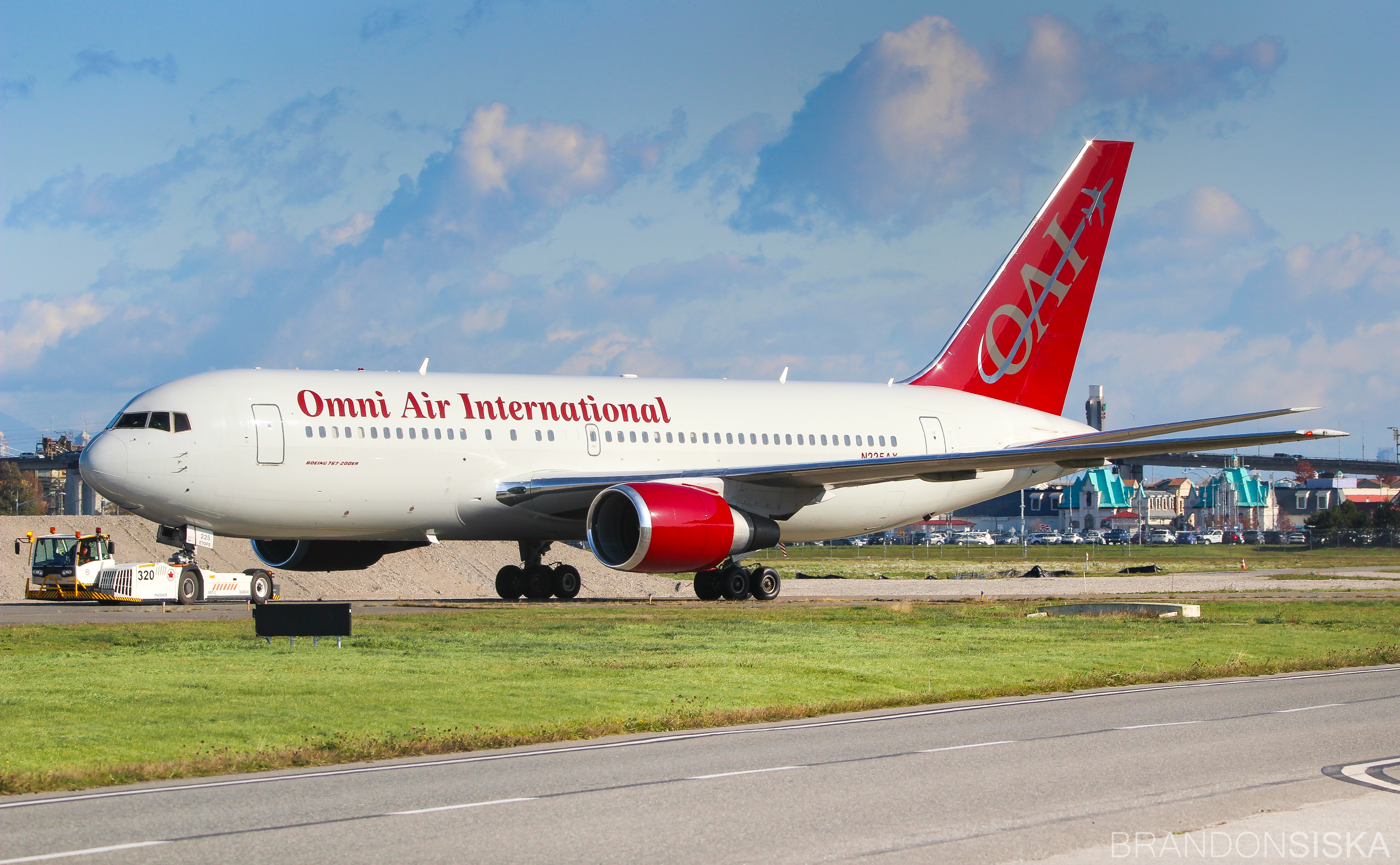 Operating for Air Canada